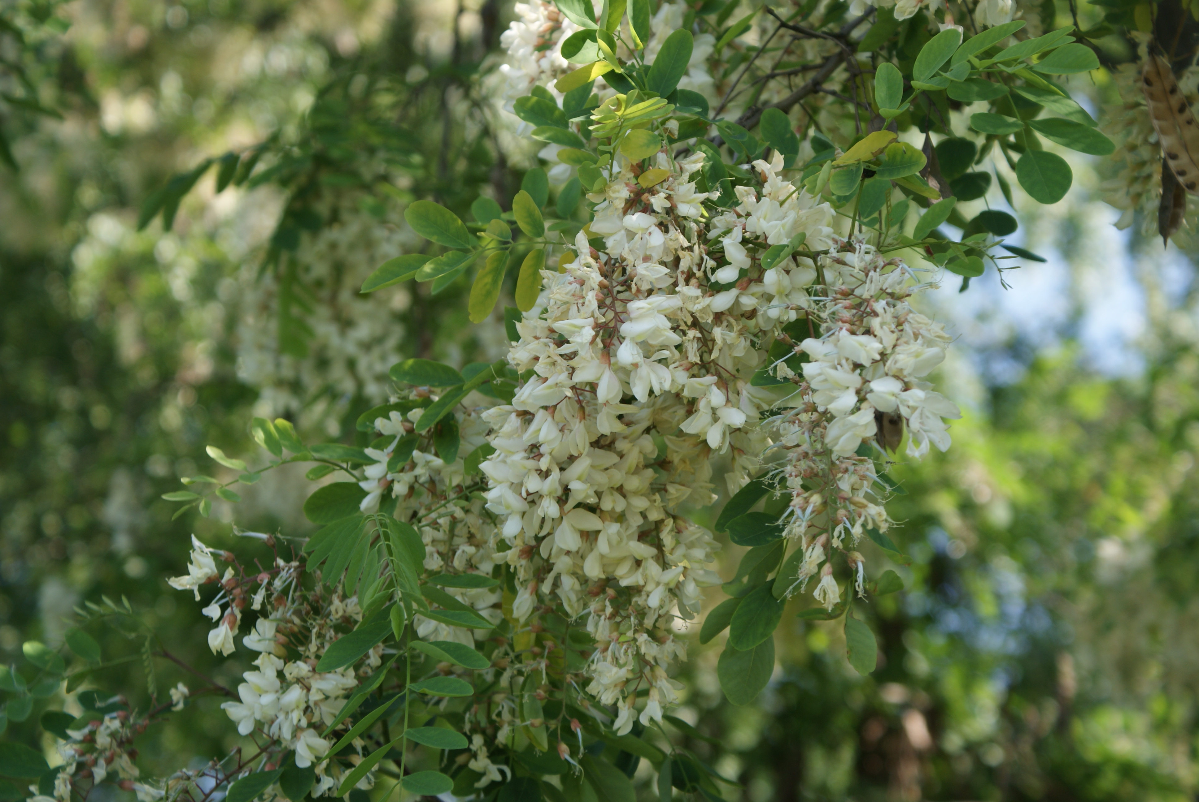 Unidentified plant in Minsk